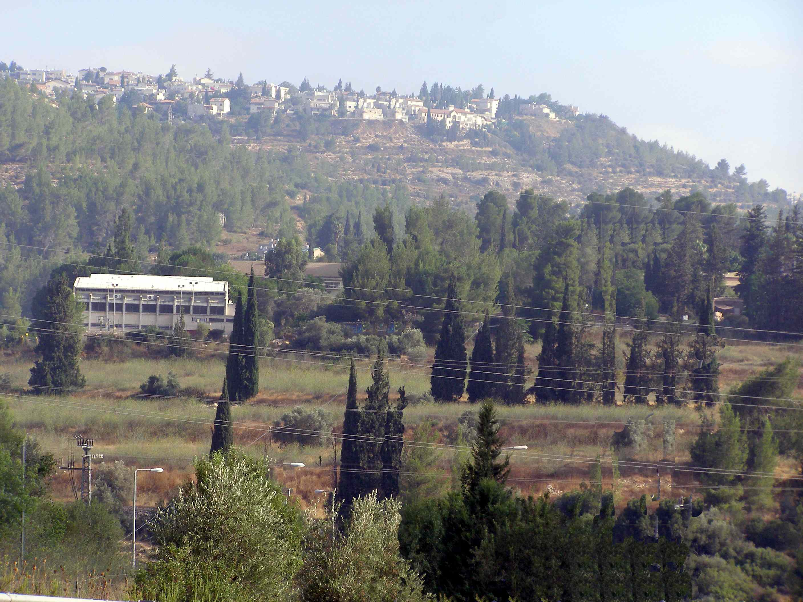 Agricultural regional school of Ein Karem